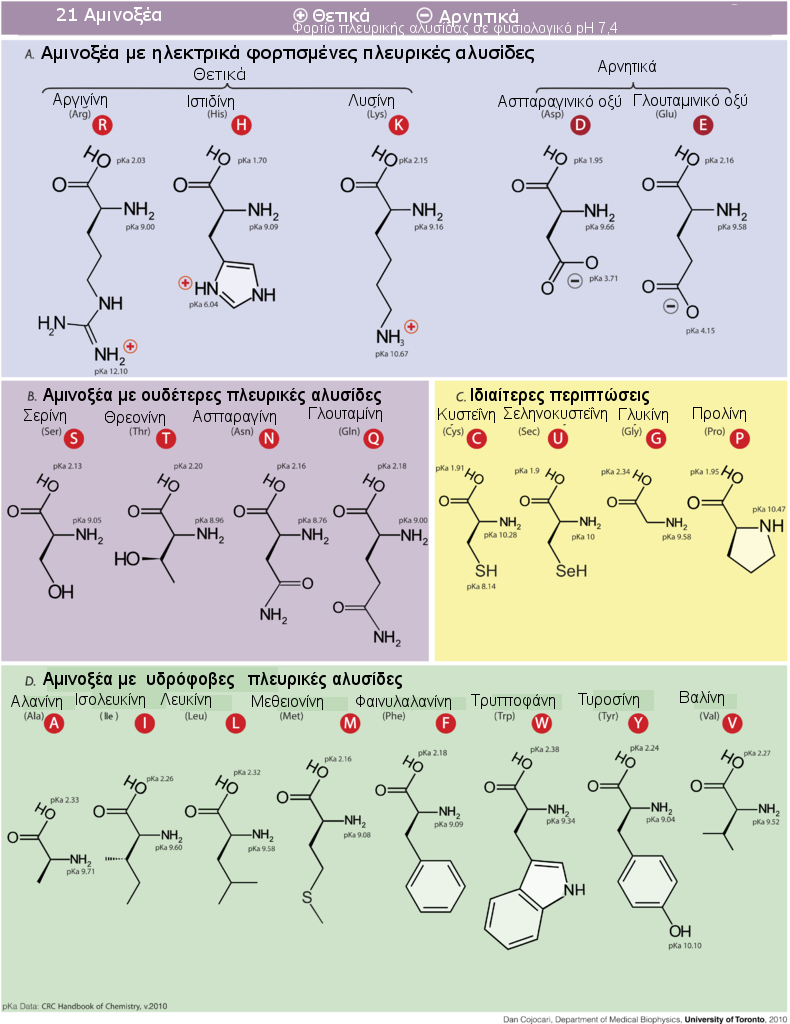 Translation of Αρχείο:Amino acids.png into Greek